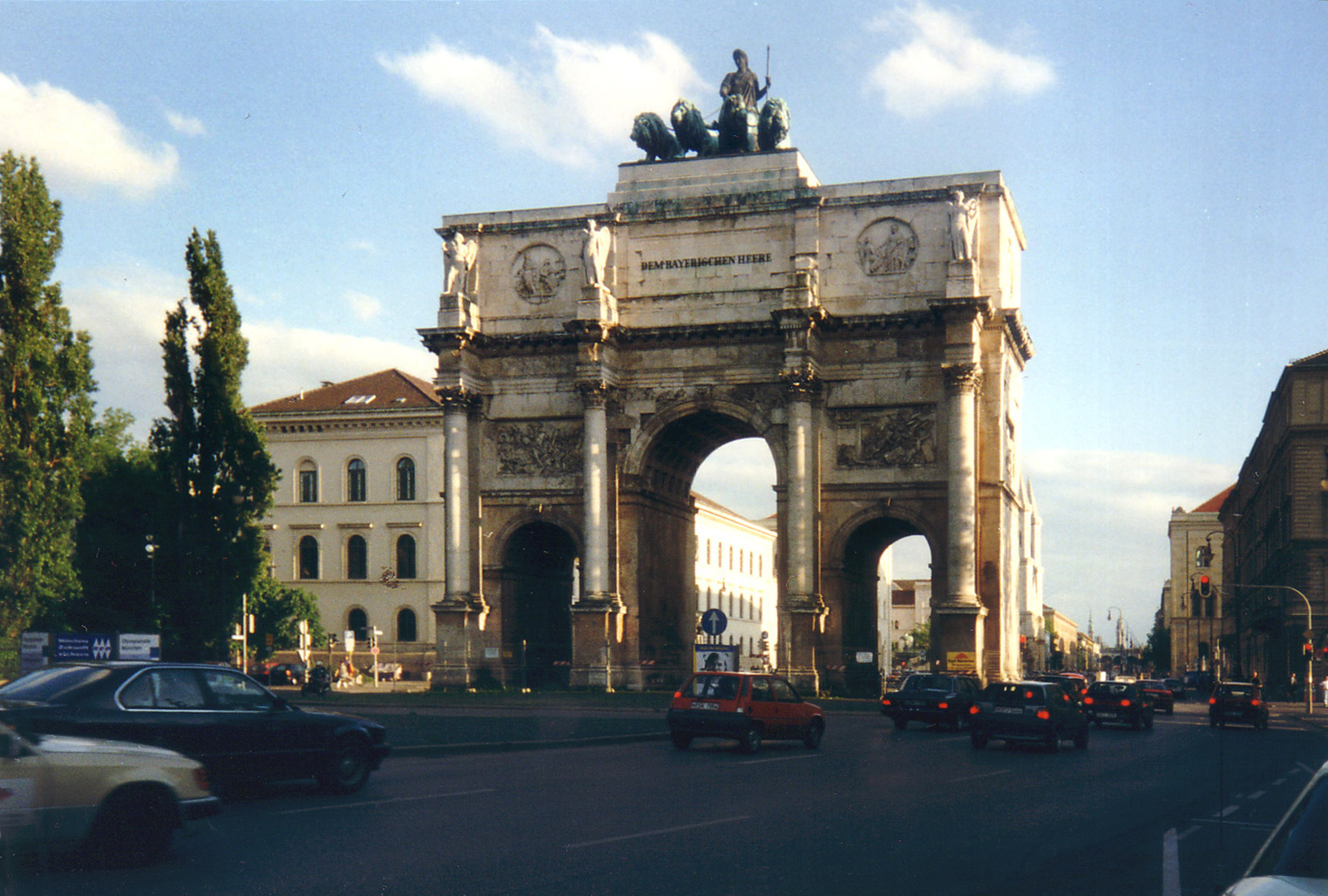 Siegestor in Munich, Germany